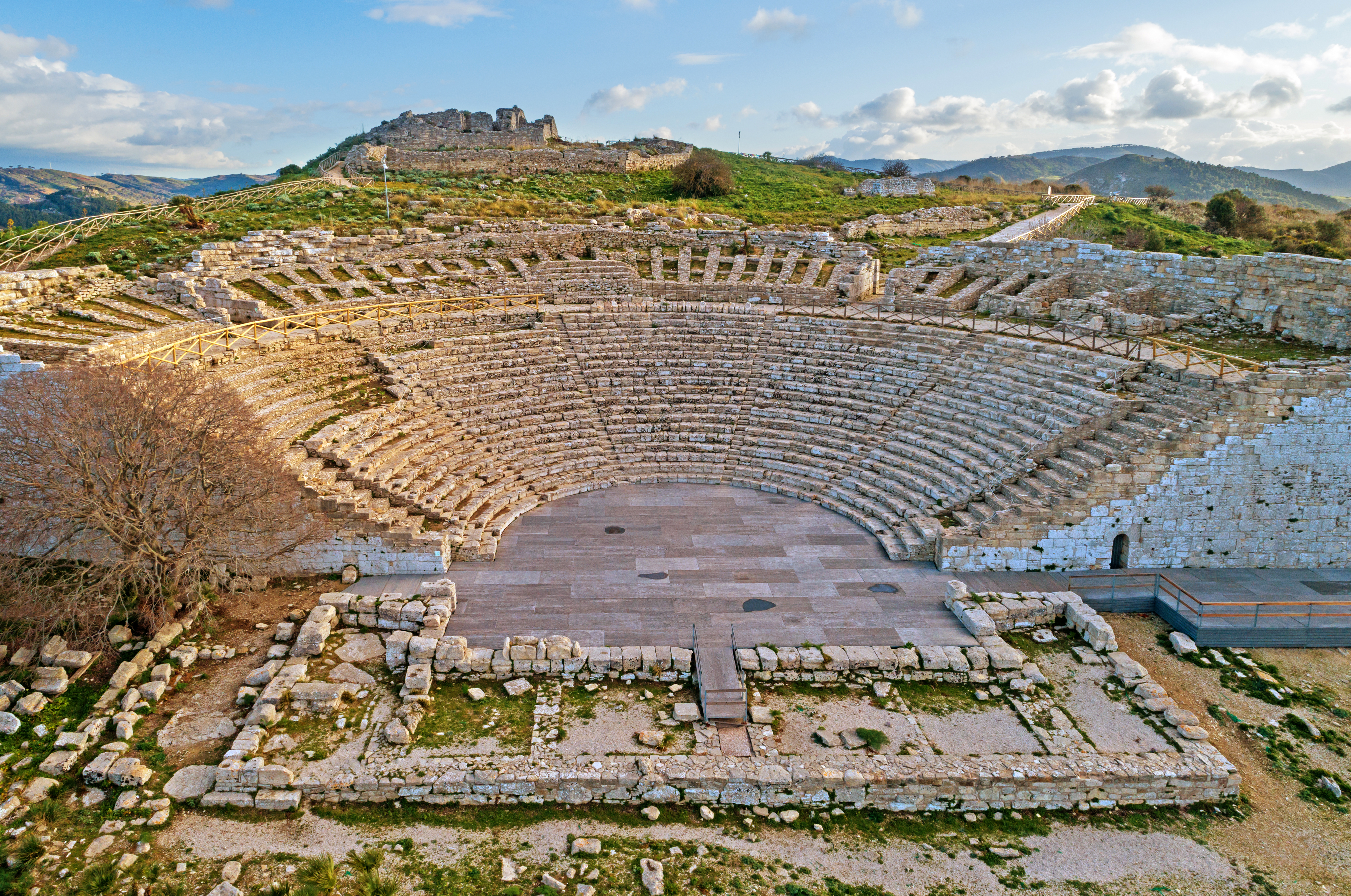 Ancient Greek theatre in Segesta, Sicily